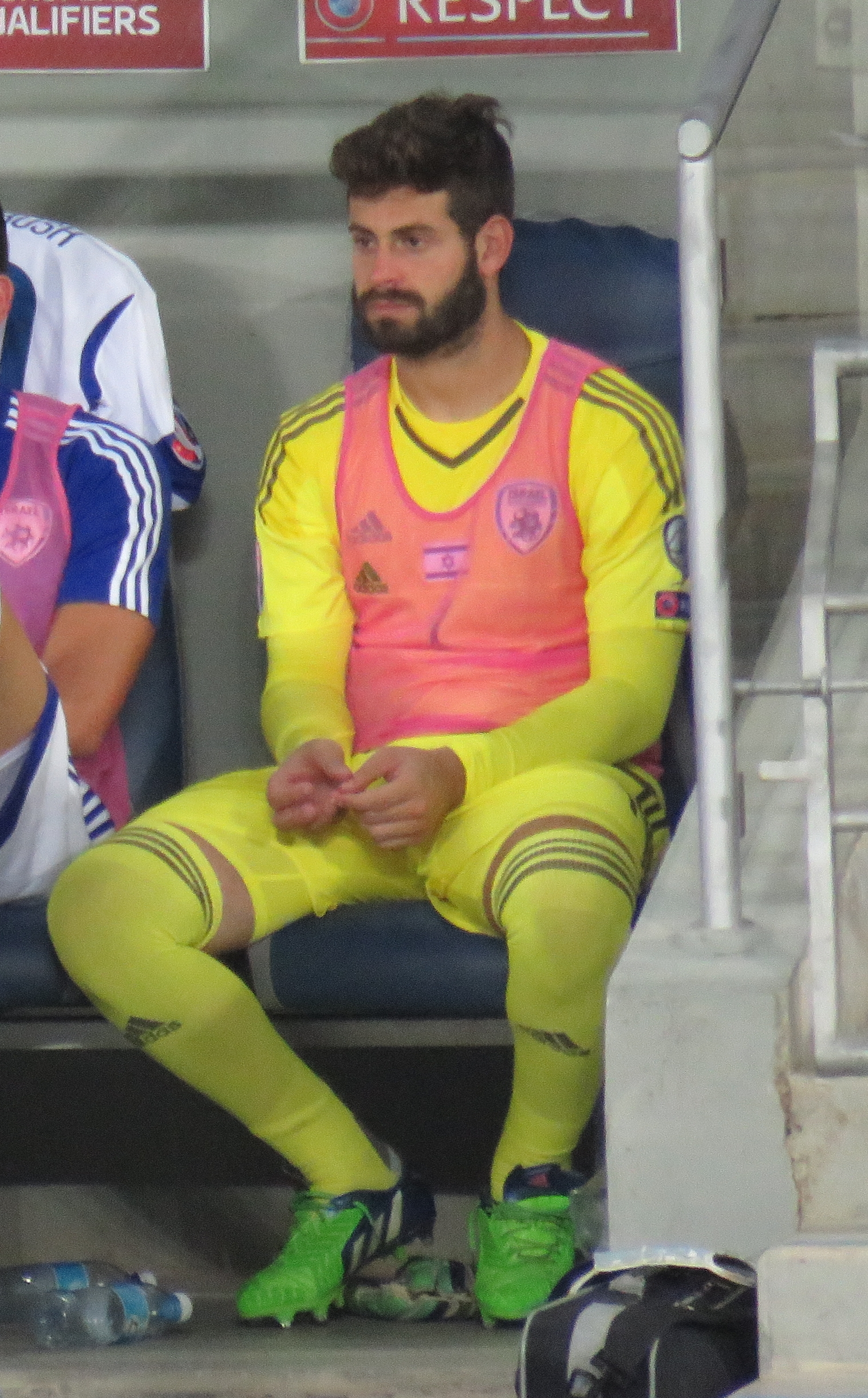 Israel vs. Andorra - September 3, 2015